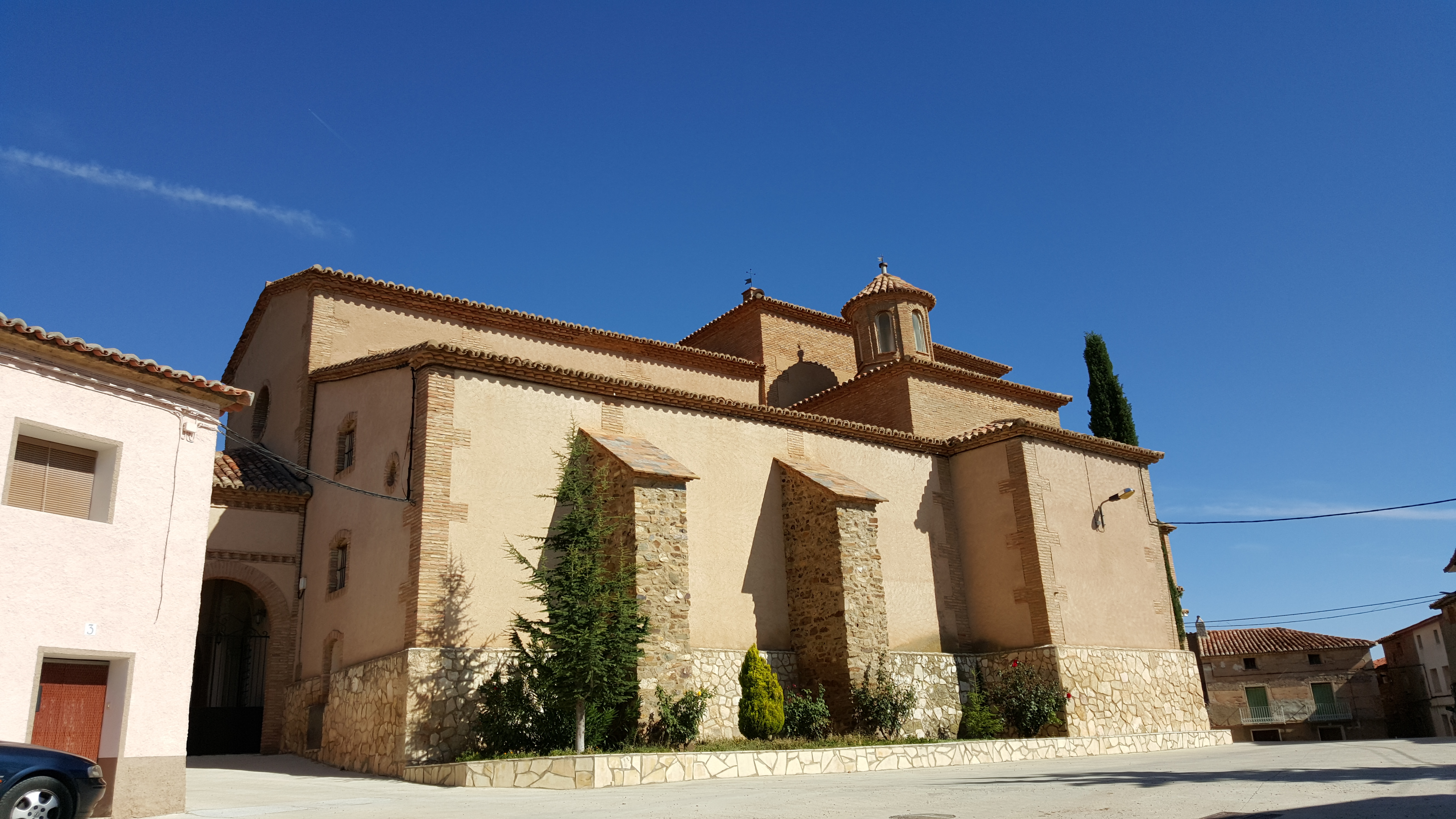 Church of St John Baptist, Valdehorna, Zaragoza, Spain